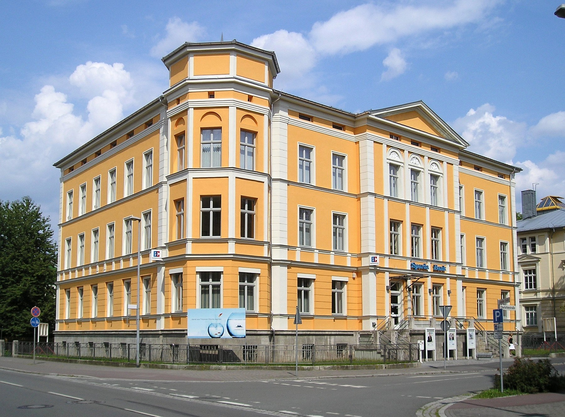 Headquartier of Werra-Railway-Corporation in city Meiningen, germany